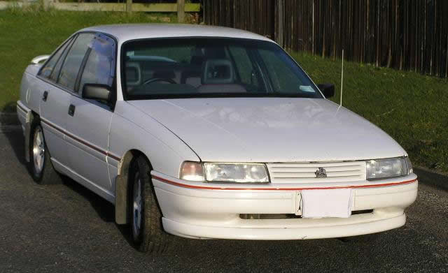 1988–1991 Holden Commodore (VN) GTS sedan, photographed in New Zealand.